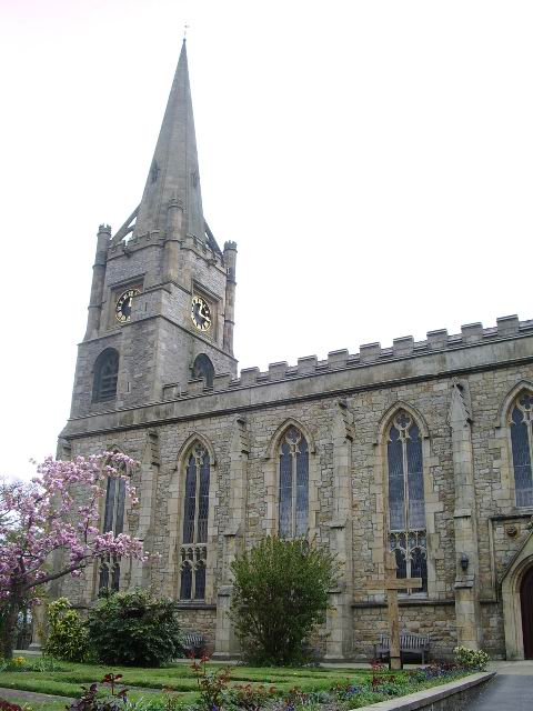 St Marys Parish Church, Clitheroe